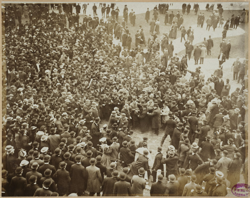 Police protect Nick Altrock from adoring crowd, 1906 World Series Caption: Crowds around Altrock, police protecting him Creator: unidentified Date: 1906 Format: photograph Description: Altrock had just pitched a four hitter in the Chicago White Sox's 2-1 victory in game one of the 1906 World Series against the Chicago Cubs at West Side Grounds. At the time, it was common practice for fans to walk across the field when exiting after the games BPL Collection: McGreevey Collection BPL Department: Print Subject: Baseball--History World Series (Baseball) (1906) Chicago White Sox (Baseball team) Chicago Cubs (Baseball team) Sports spectators